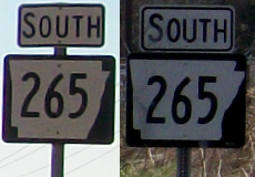 Two Arkansas Highway 265 route markers. Used to compare the different Arkansas state outlines used on Arkansas state highway shields. These tow variants appear across the state.